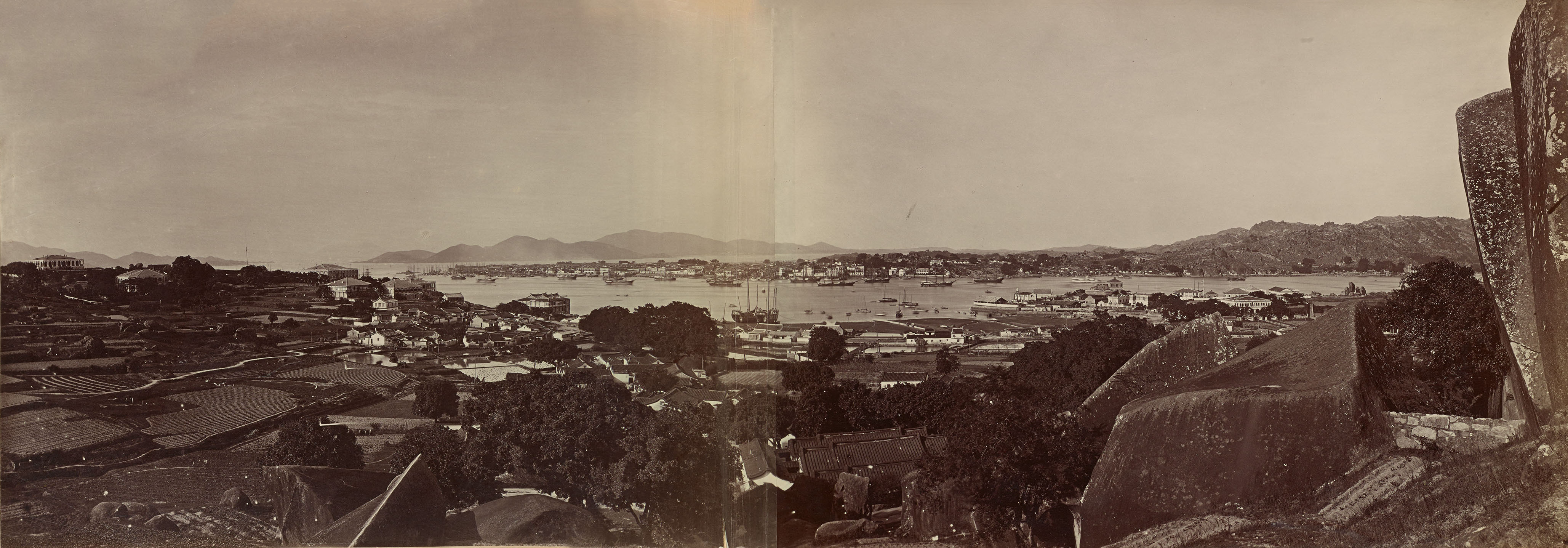 Photo taken from the bluff at the back of the former United States Consulate (26 Sanming Road) on Gulangyu Island (formerly Koolansoo Island), overlooking Xiamen island (formerly Amoy).